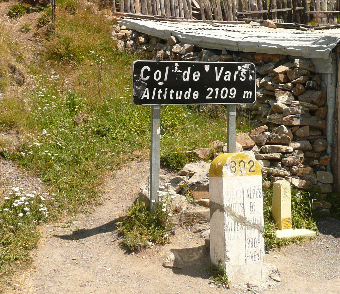 Sign on top of the French pass "Col de Vars"